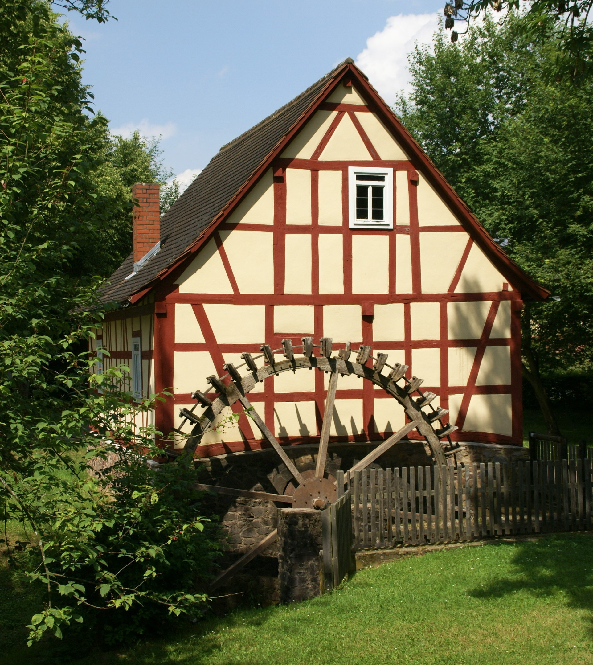 Former oil mill in Mömbris, since 1978 at its present place